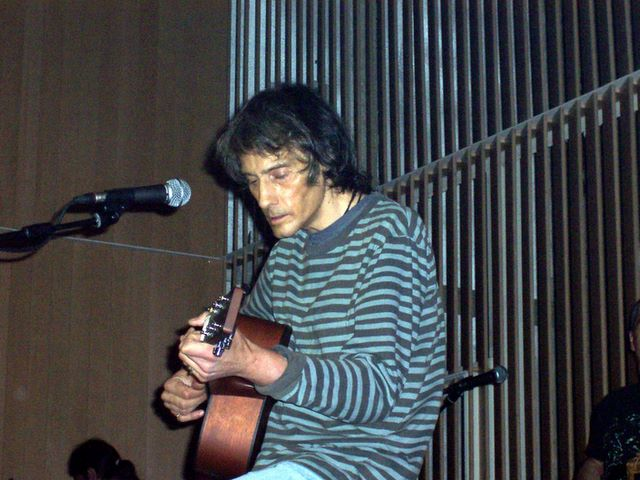 Antonio Vega, former member of Spanish pop band Nacha Pop